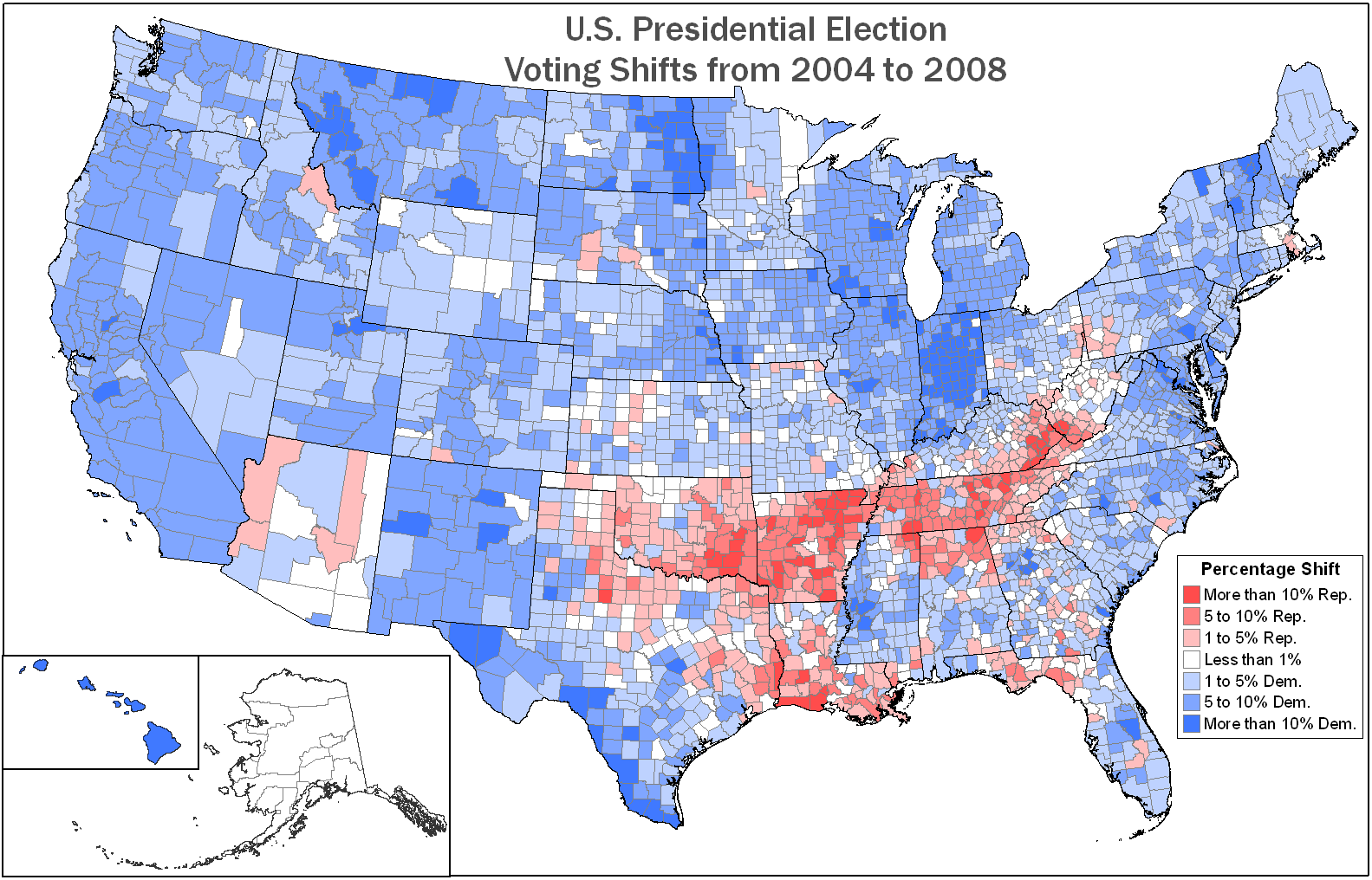 This map shows the shift in voting patterns from the 2004 U.S. presidential election and the 2008 U.S. presidential election.